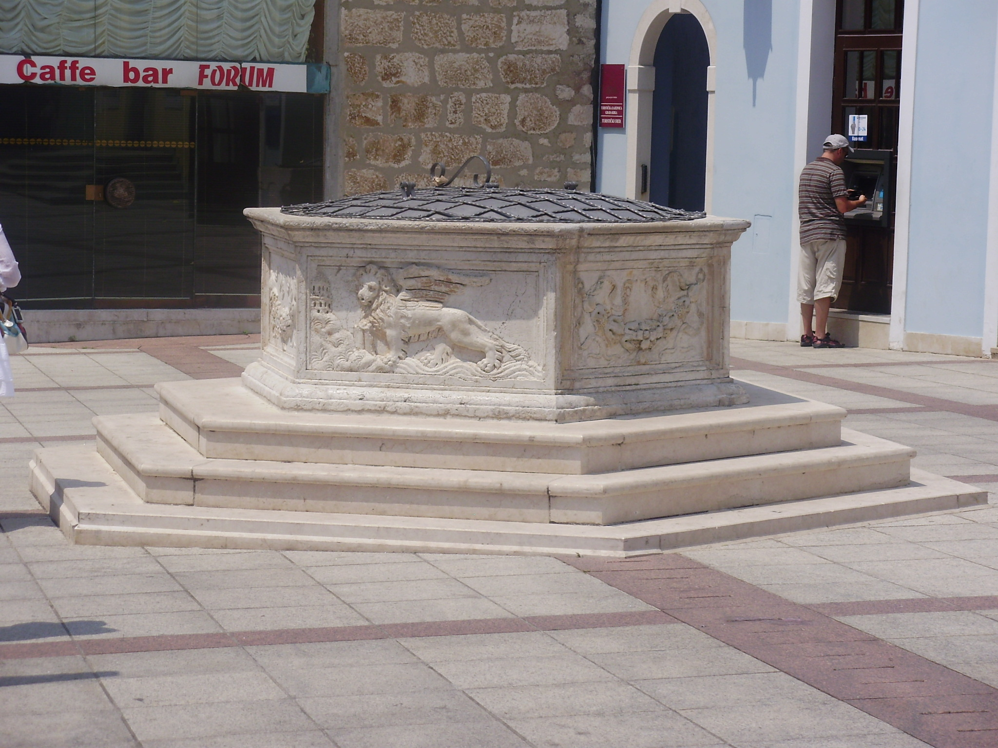 Baska, Krk Croatioa